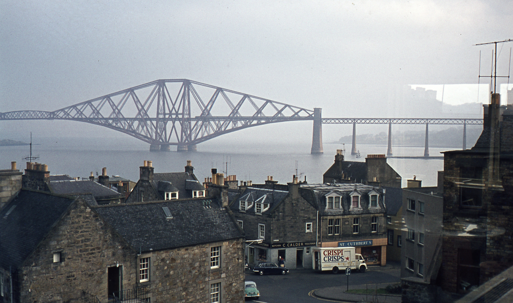 Firth of Forth - Scotland